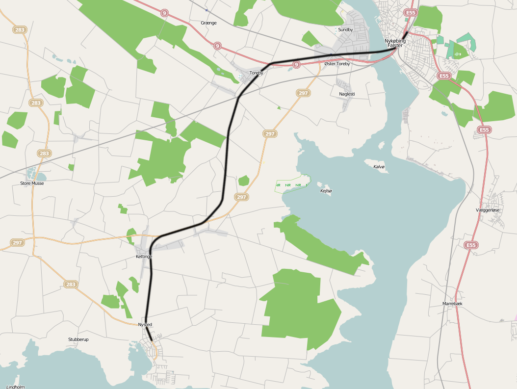 Railway line Nykøbing Falster - Nysted